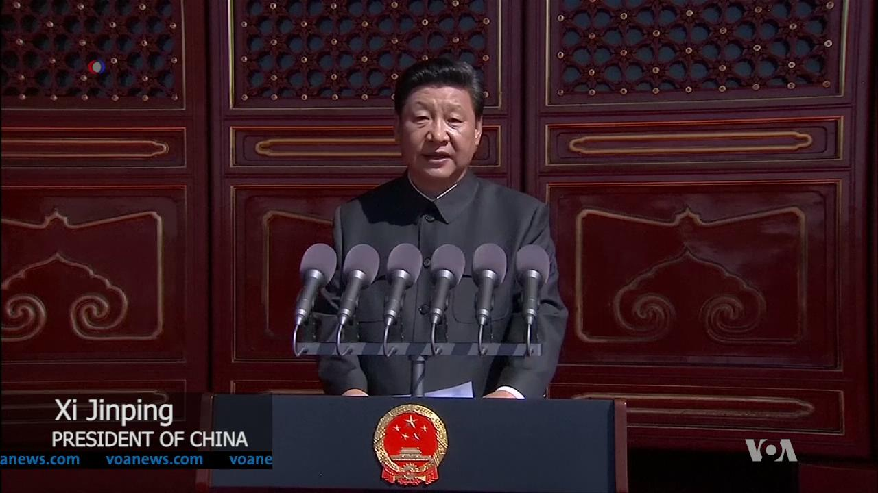 2015 China WWII Parade (screenshot)